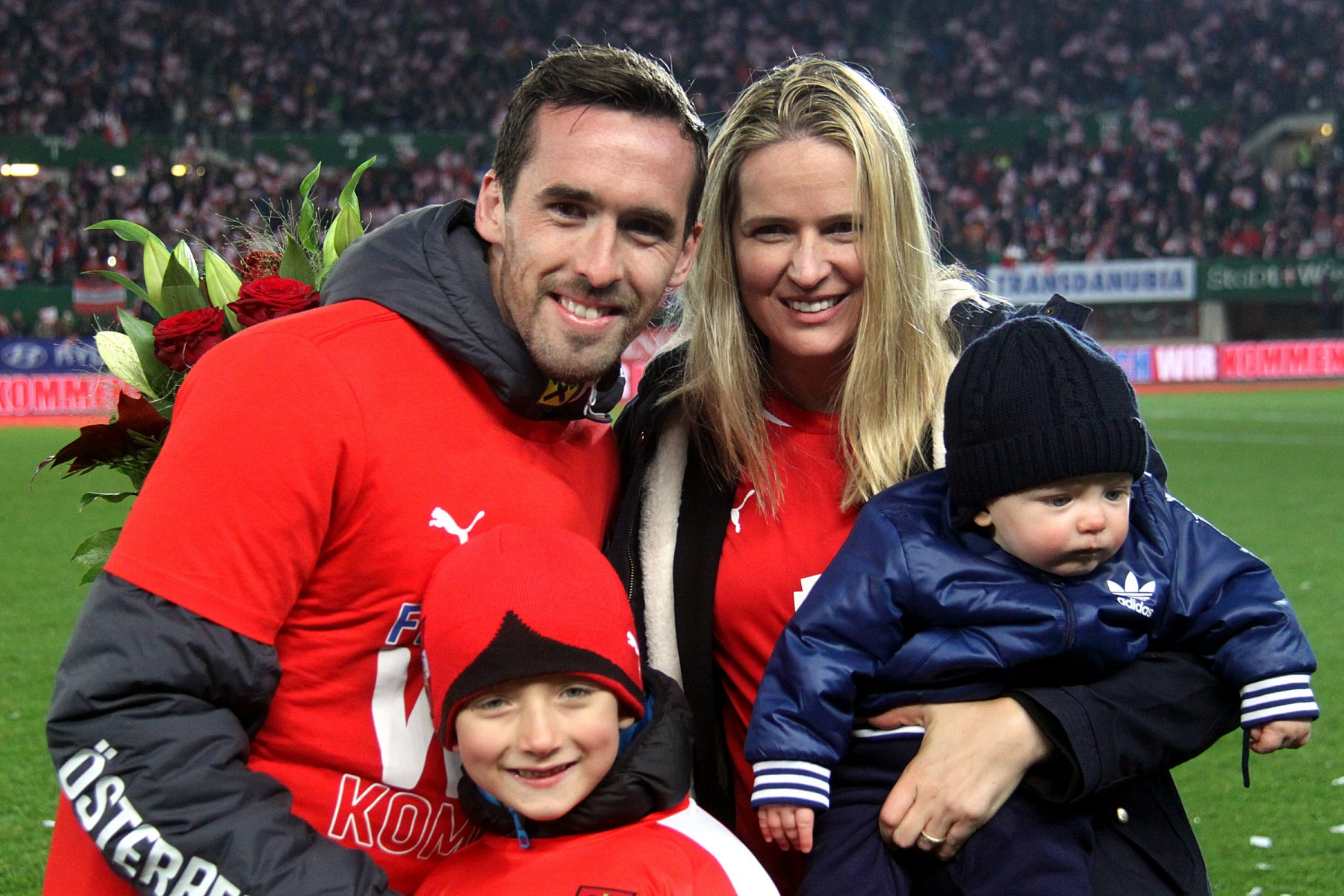 UEFA Euro 2016 qualifying, Group G – Austria (red shirts) vs. Liechtenstein (blue shirts) 3–0 (1–0) on 2015-10-12 in Ernst-Happel-Stadion, Vienna – The photo shows Christian Fuchs with his wife and the two sons.